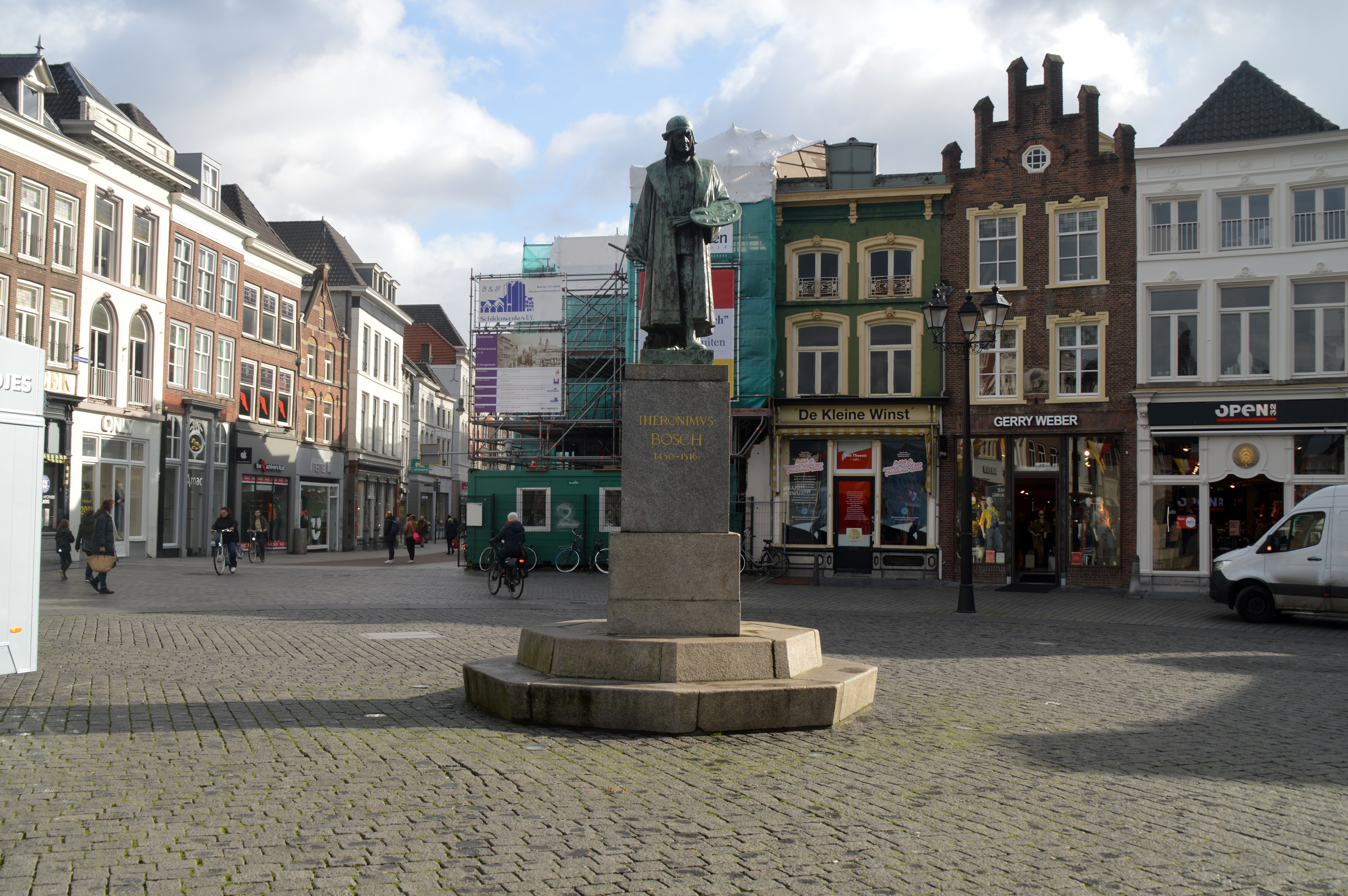 Statue Jeroen Bosch Hieronymus Bosch Jheronimus Bosch August Falise 1929 Market 's-Hertogenbosch.